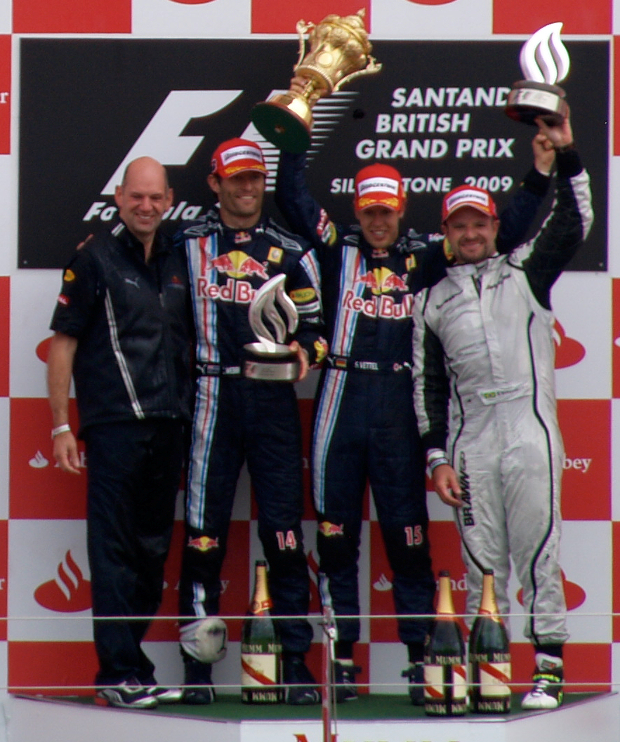 The podium of the 2009 British Grand Prix, from left to right: Adrian Newey, Mark Webber, Sebastian Vettel and Rubens Barrichello.